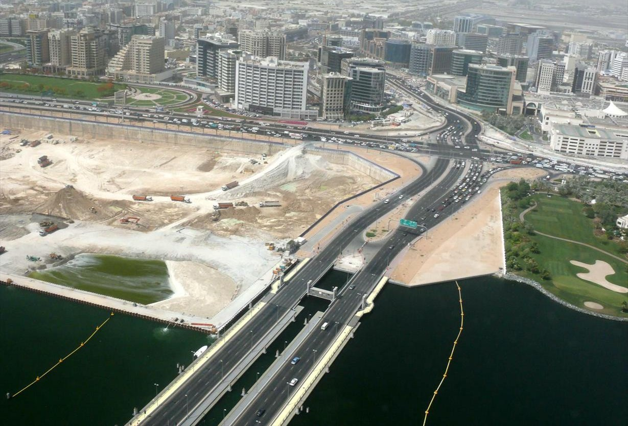 This is an aerial view of the Floating Bridge over Dubai Creek in Dubai, United Arab Emirates on 8 May 2008. Only a part of the bridge is visible. The land and area towards the top of the image is Deira. This photo was taken from a helicopter ride courtesy of Nakheel.